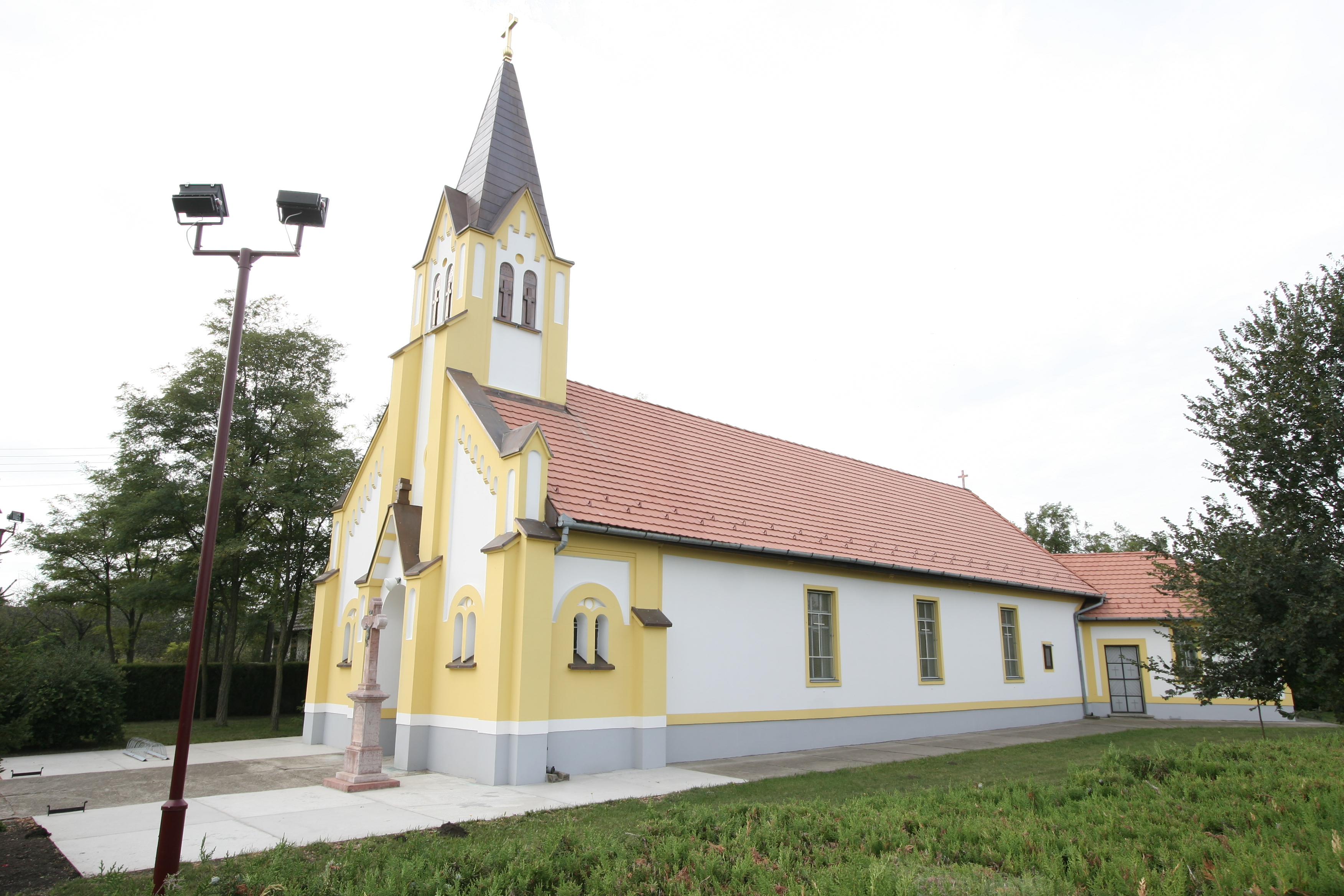 Salašarska Church devoted to Dormition of the Holy Virgin in Bikovo, Subotica